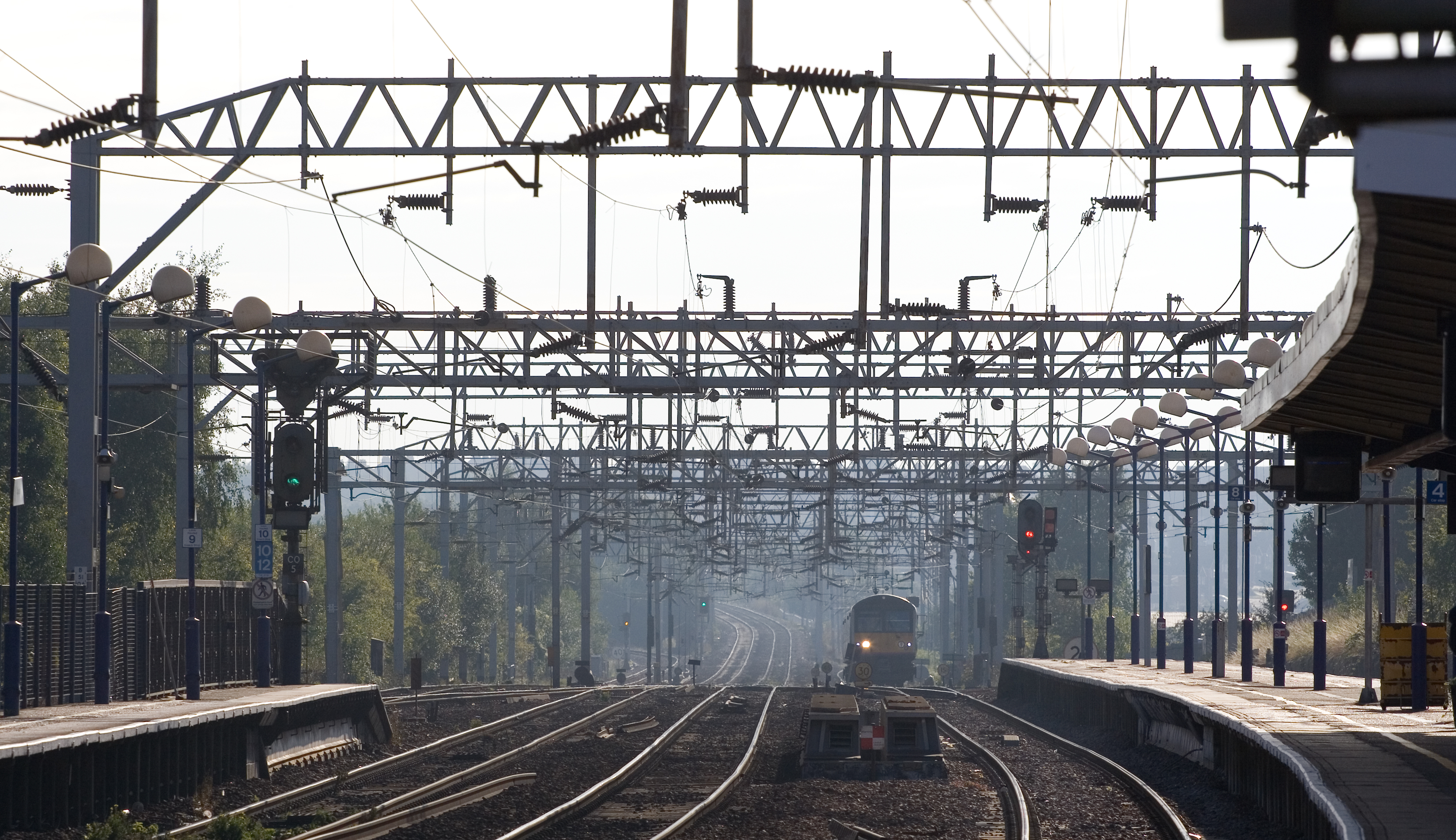 I had almost an hour to blow in the Colchester railway station before the first non-rush-hour (i.e., cheaper) train left for London on Thursday, so of course I took photographs.